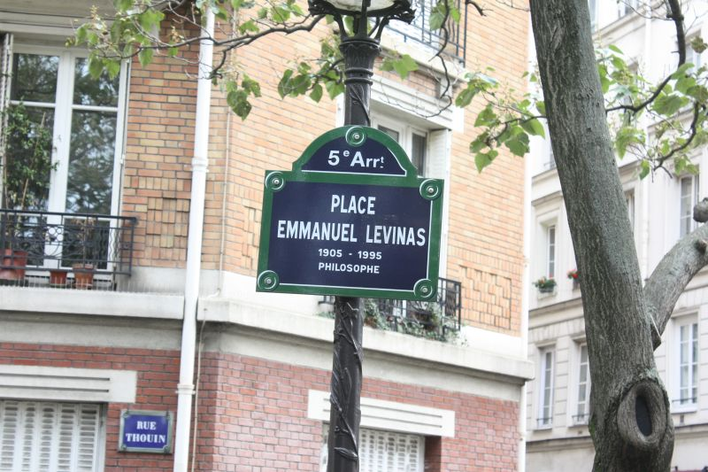 Emmanuel Levinas place in Paris